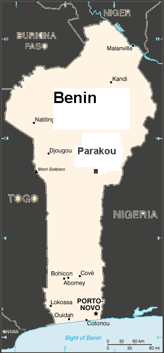 From the CIA World Factbook. I edited the image to enlarge the showing of Parakou and create a more Dramatic background.